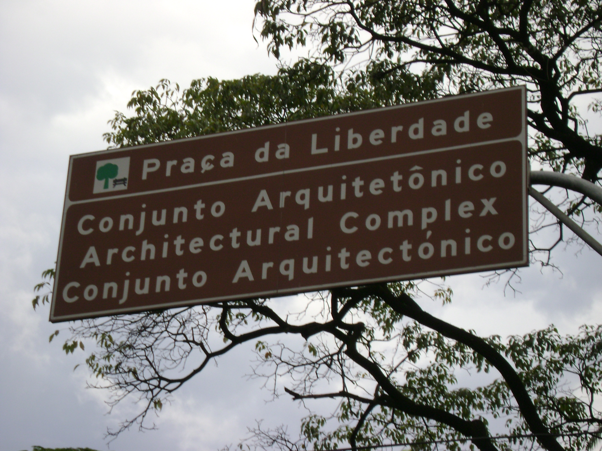 Placa da praça da Liberdade, em Belo Horizonte.